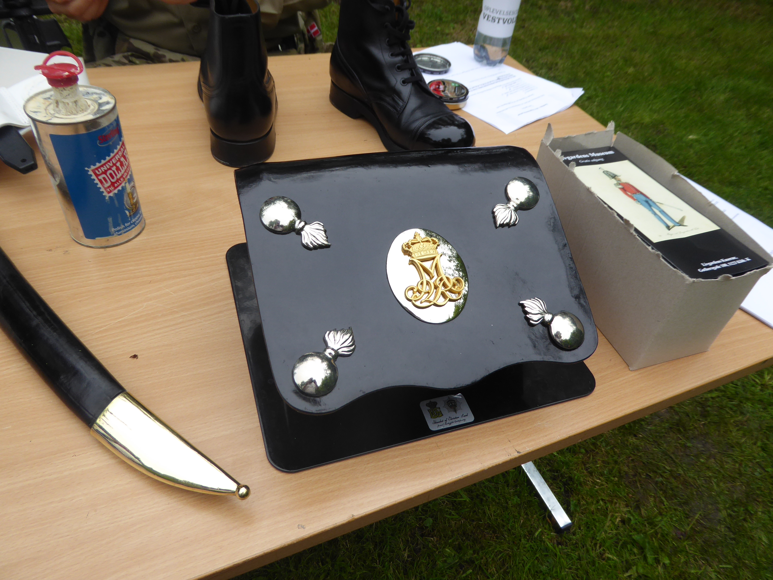 Krigshistorisk Festival (War Historical Festival) in Rødovre in Copenhagen. Cartridge pouch of the museum of the Royal Danish Guard. Similar pouches are still used by the guard.